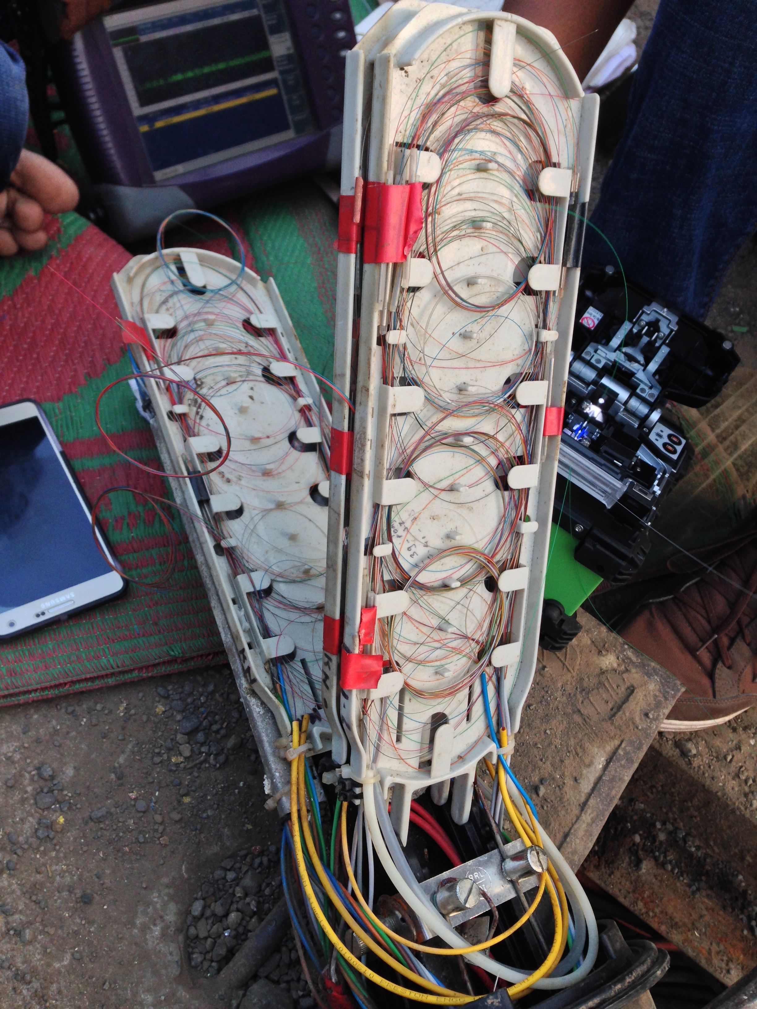 Technicians investigating a fault in an underground optical fiber cable junction box in India. The individual fiber cable strands within the junction box are visible.